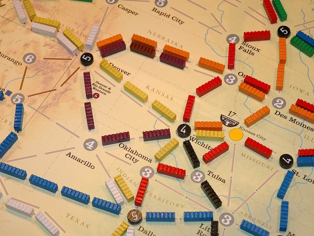 A close-up of a portion of the board at the end of a game of Santa Fe Rails